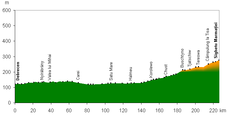 elevation profile of the railway track Debrecen-Satu Mare-Sighetu Marmatiei